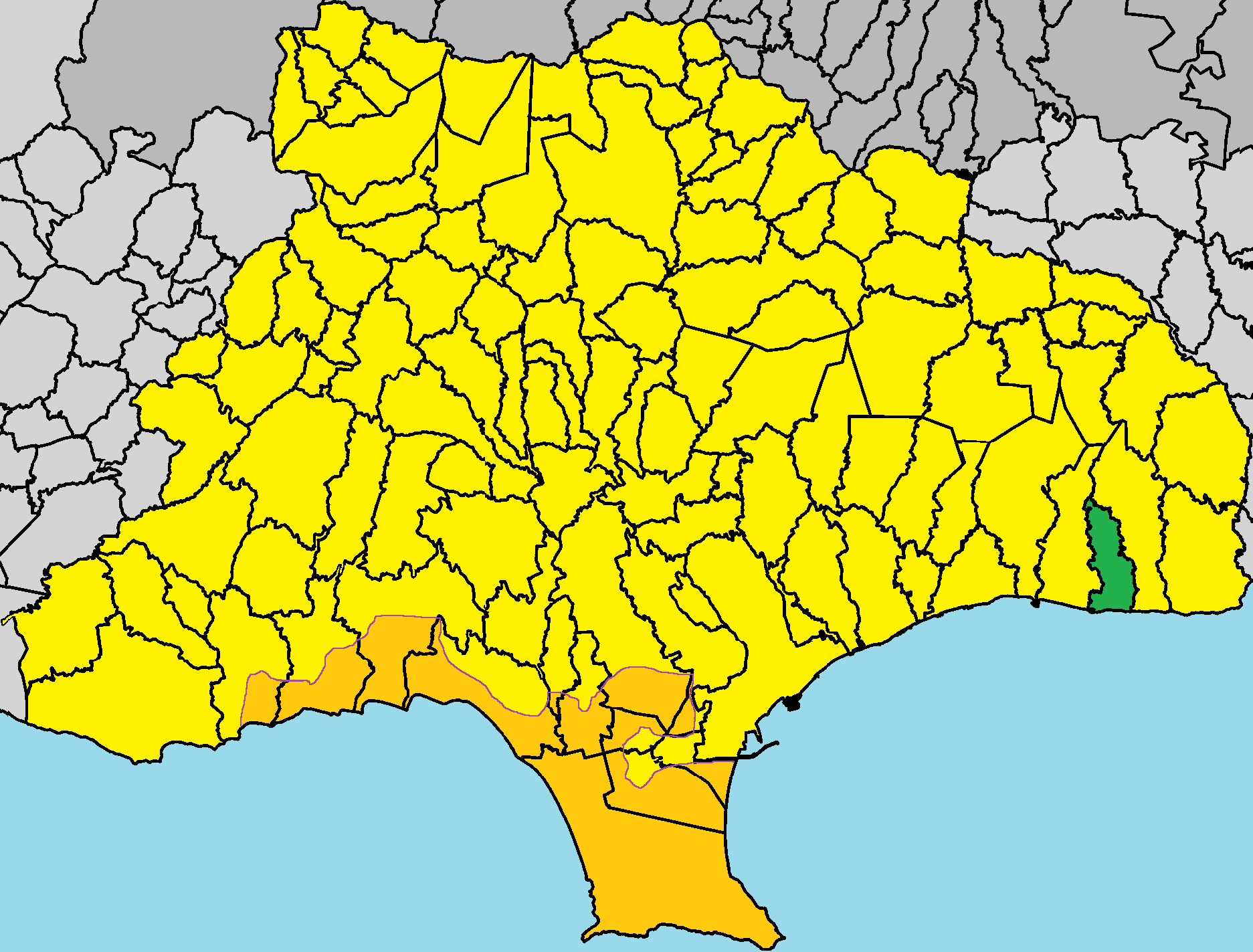 Moni, Cyprus in Limassol District.